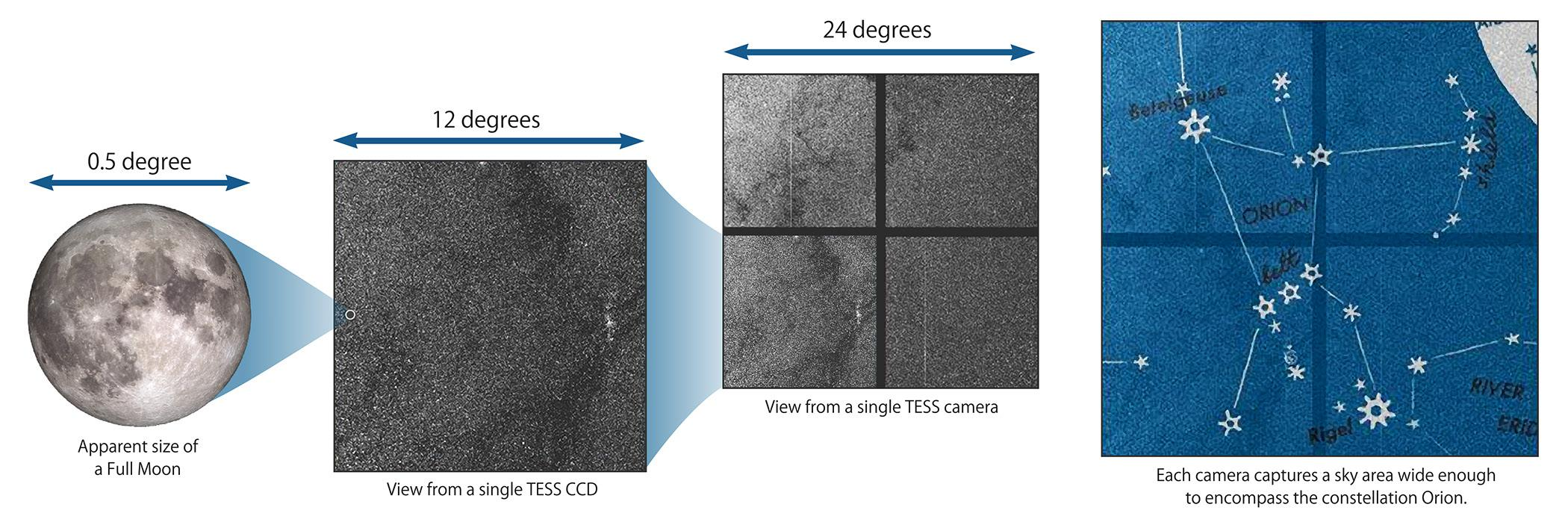 Each CCD in the TESS cameras images a sky area that could hold 576 full Moons. Each camera images an area as large as the constellation Orion